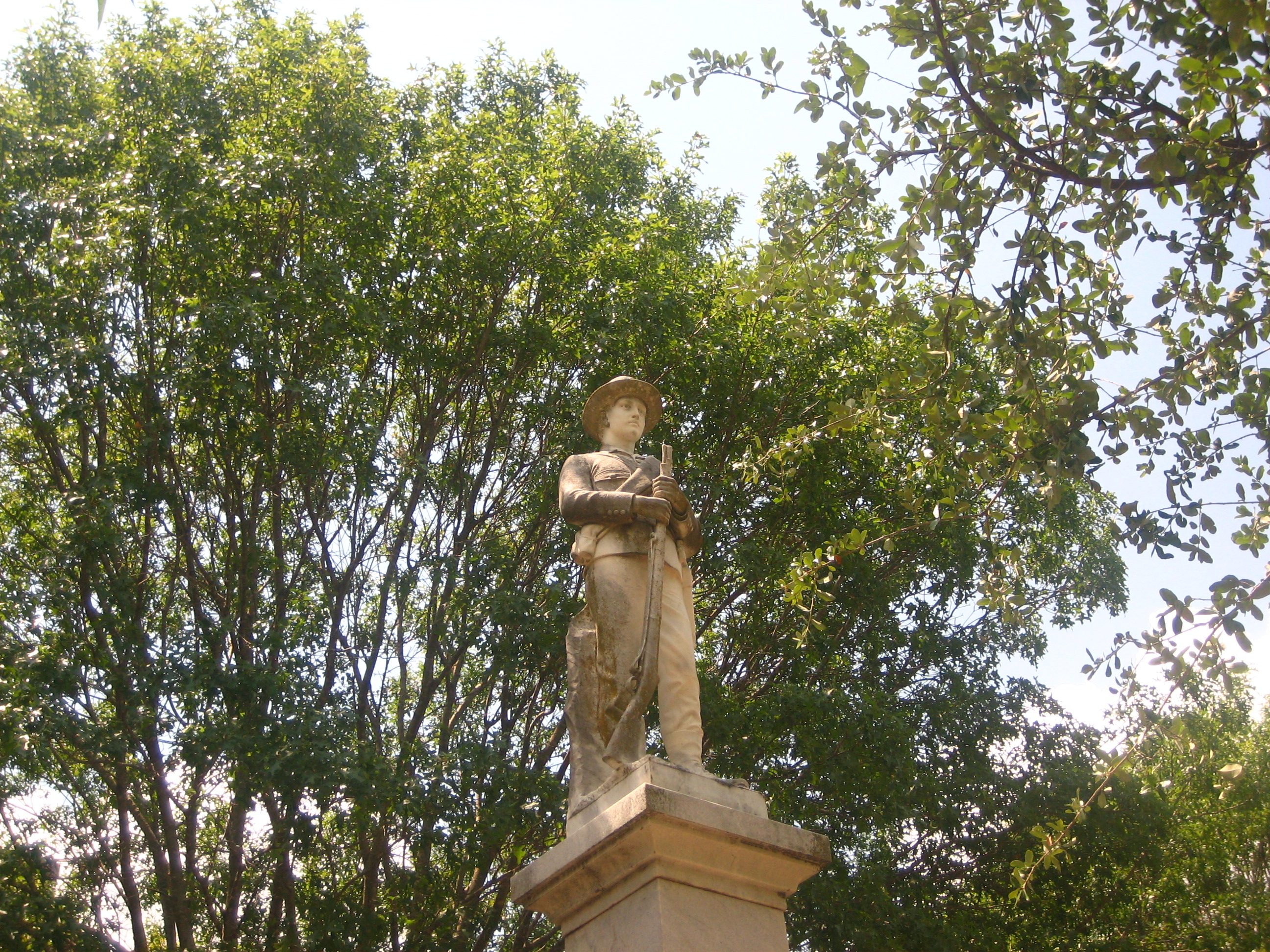 I took photo on July 17, 2008.Billy Hathorn (talk) 14:24, 26 July 2008 (UTC)